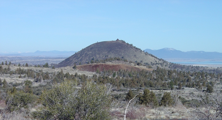 Schonchin Butte is a cinder cone on the northern flank of Medicine Lake Volcano, in Lava Beds National Monument, Siskiyou County, California. Tule Lake Valley is in the distance. USGS photo of Schonchin Butte Source caption: This view is facing north from the Cave Loop Road toward Schonchin Butte (the large, black cinder cone) and another smaller unnamed cinder cone in the foreground that had been mined, probably for road construction materials.